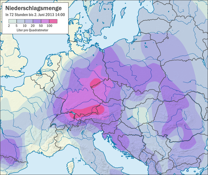 Map of 72h rain falls in Central Europe until 2 June 2013